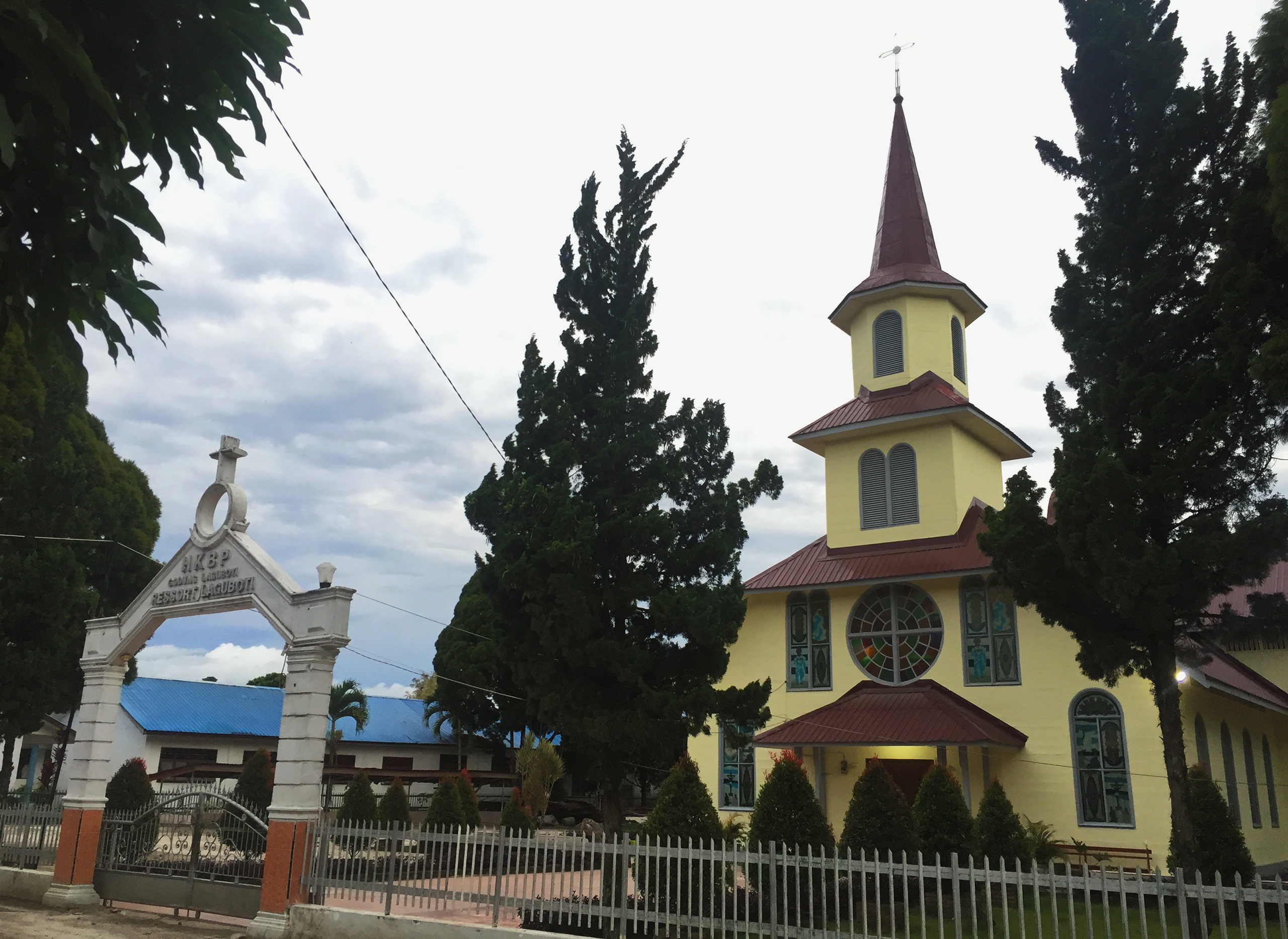 HKBP Godung Laguboti, Church in Laguboti, Toba Samosir